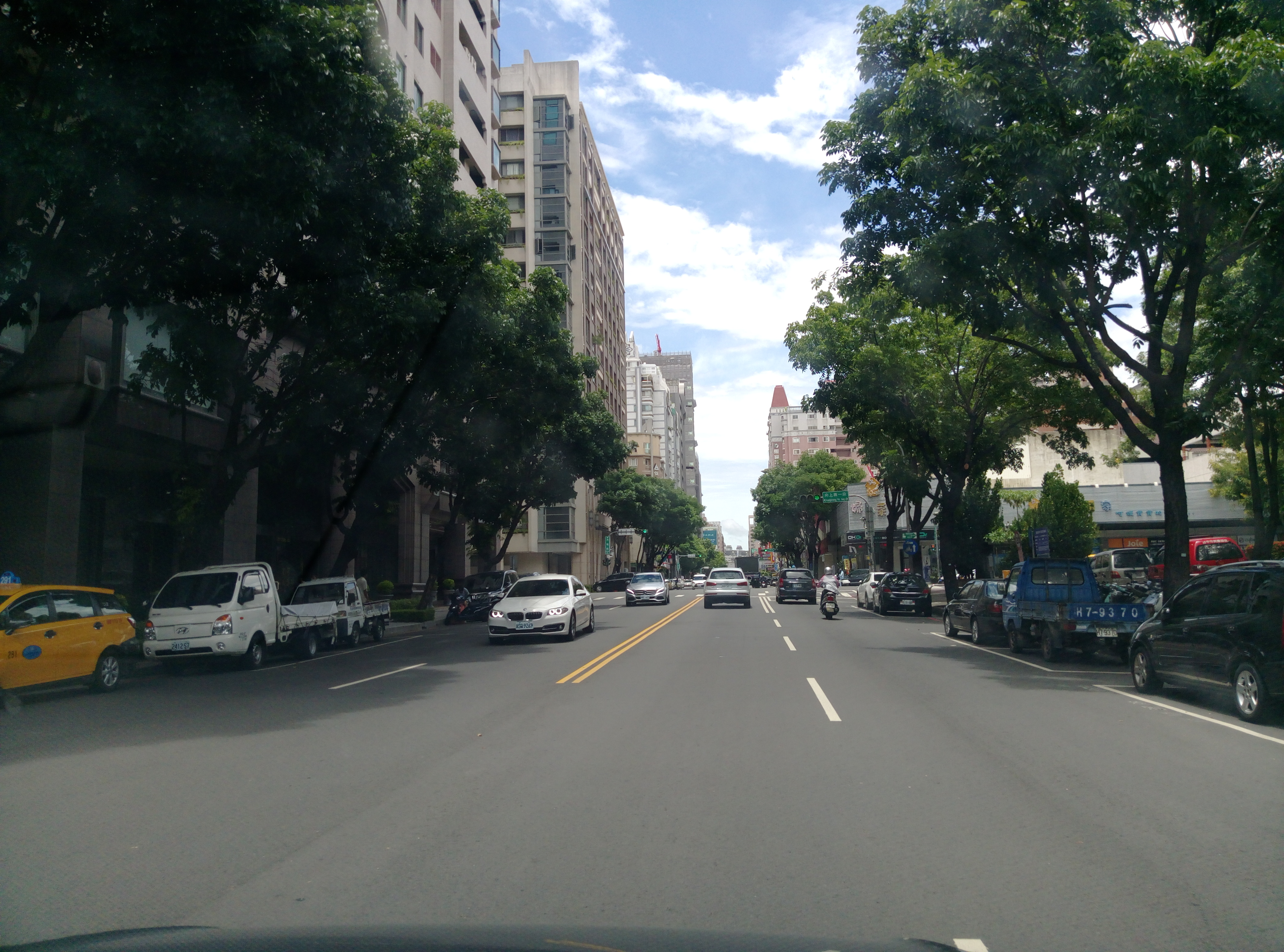 as shown.